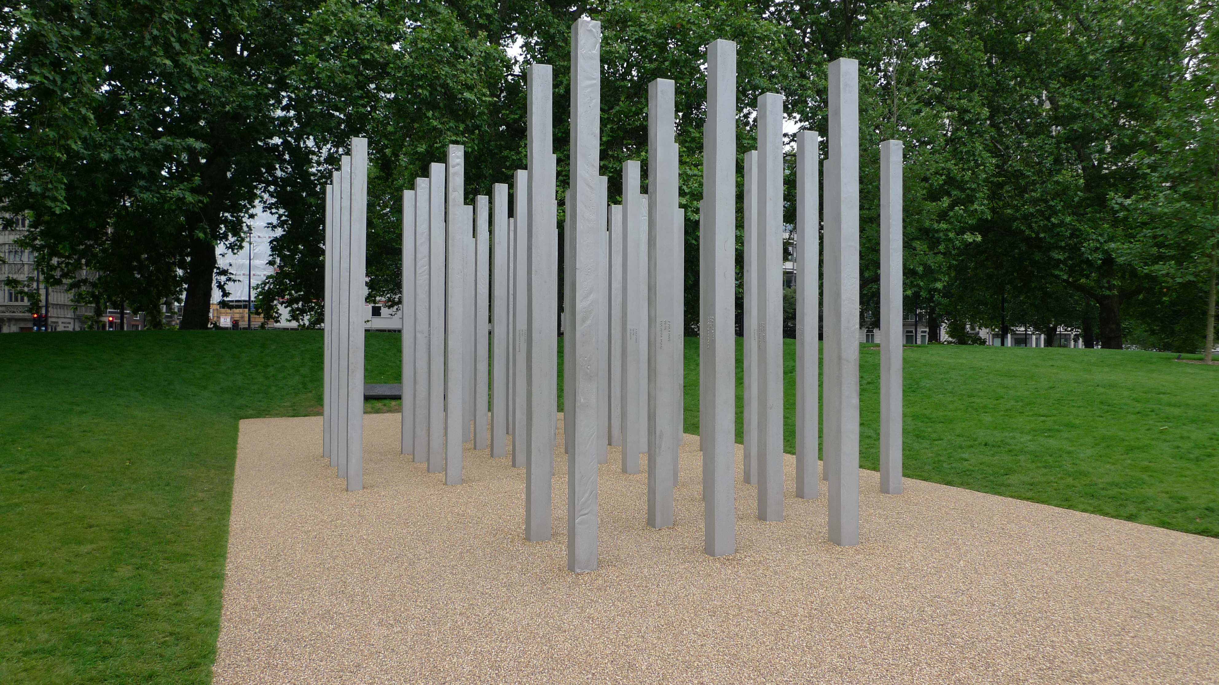 7 July Memorial, Hyde Park. Each of the 52 stainless steel columns represents a victim of the 7 July 2005 London bombings, and is inscribed with the date, time and location of the bomb which took their lives. The columns are arranged into four clusters representing the four different locations of the bombings. A plaque at the rear of the memorial lists the names of the victims in full. The memorial was designed by architectural studio - Carmody Groake, and was unveiled on the fourth anniversary of the bombings - 7 July 2009.